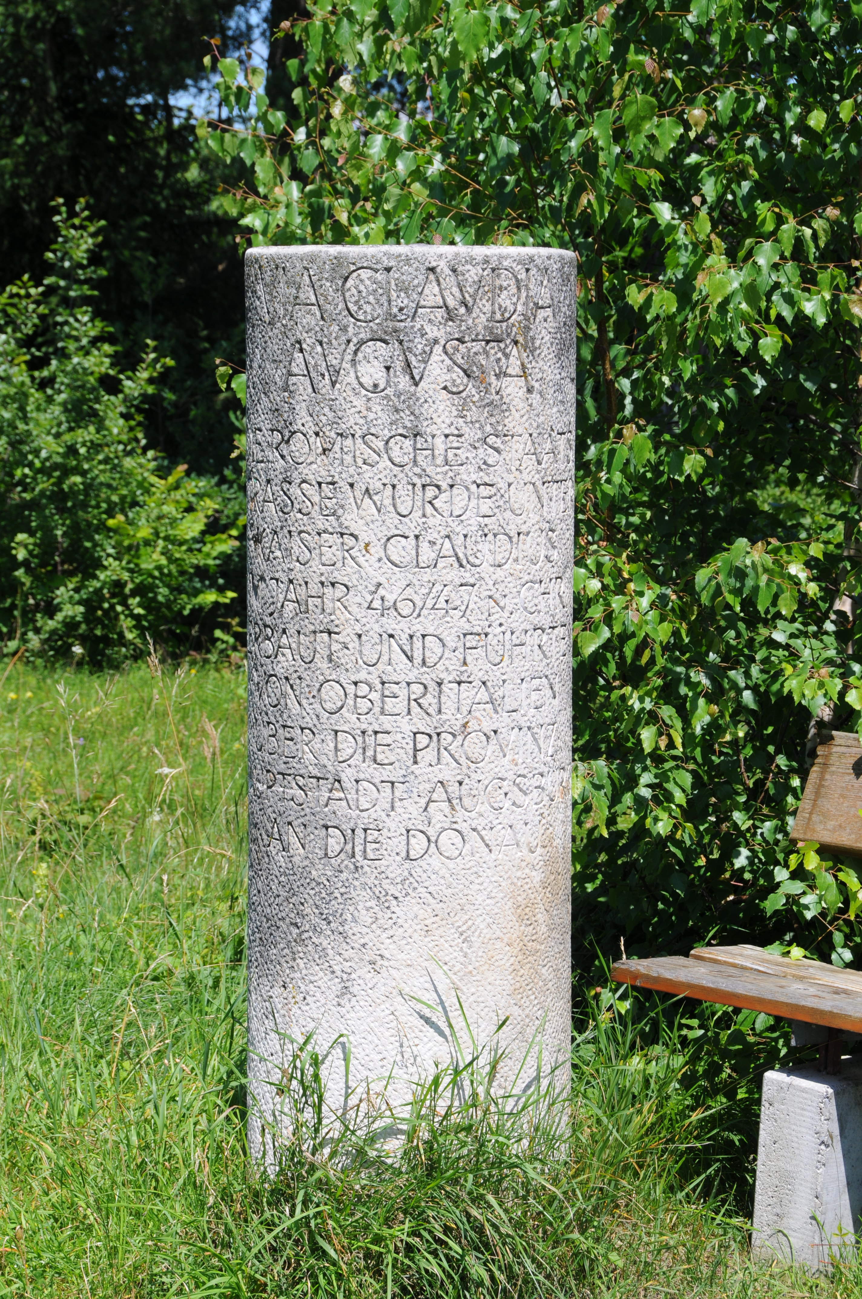 Via Claudia Augusta milestone (replica) near Dietringen, lake Forggensee, Germany